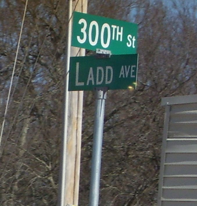 A sign at the junction of McClain Co. (Oklahoma) road 300 and Ladd Ave. Taken east of Goldsby, OK by User:Scott5114.